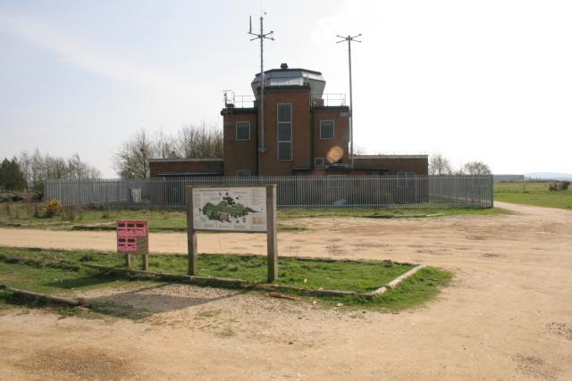 Greenham Common. The disused Control Tower building at the now derelict Greenham Common Airbase.